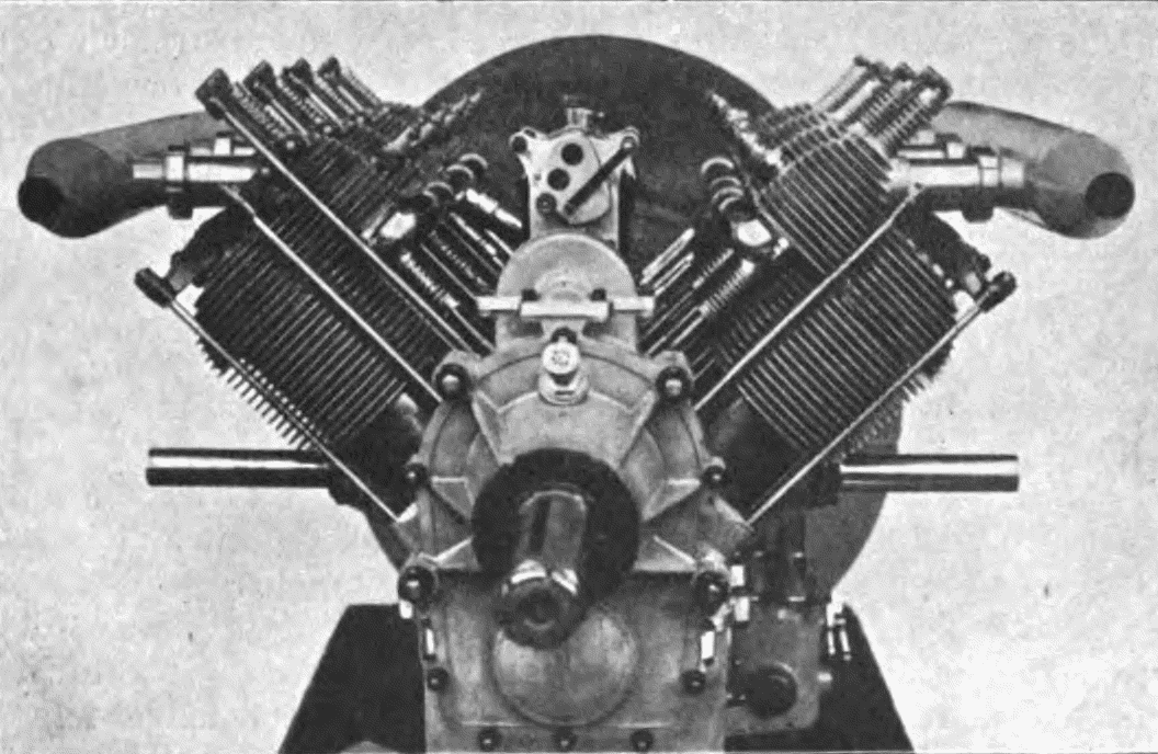 De Dion 80 hp aircraft engine displayed at the Salon aéronautique de 1912